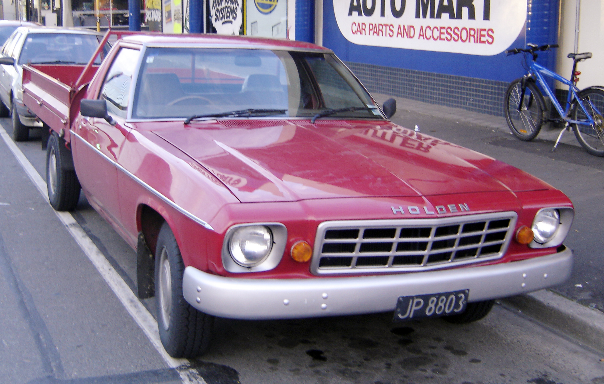 1980 Holden HZ One Tonner cab chassis, photographed in Christchurch, New Zealand.